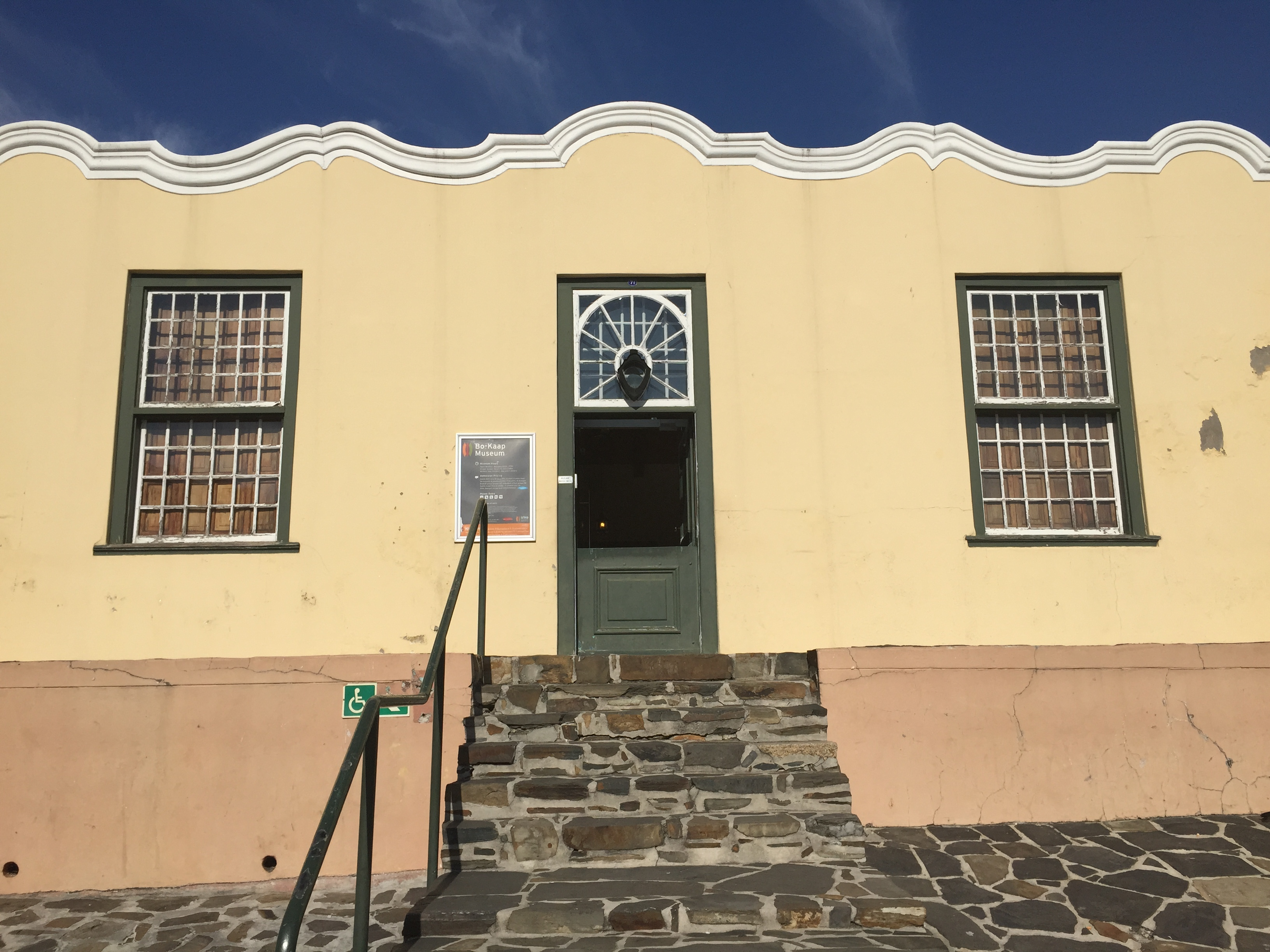 Front entrance to the Bo-Kaap Museum, Wale street. This media shows a South African Protected Site with SAHRA file reference 9/2/018/0264/001.